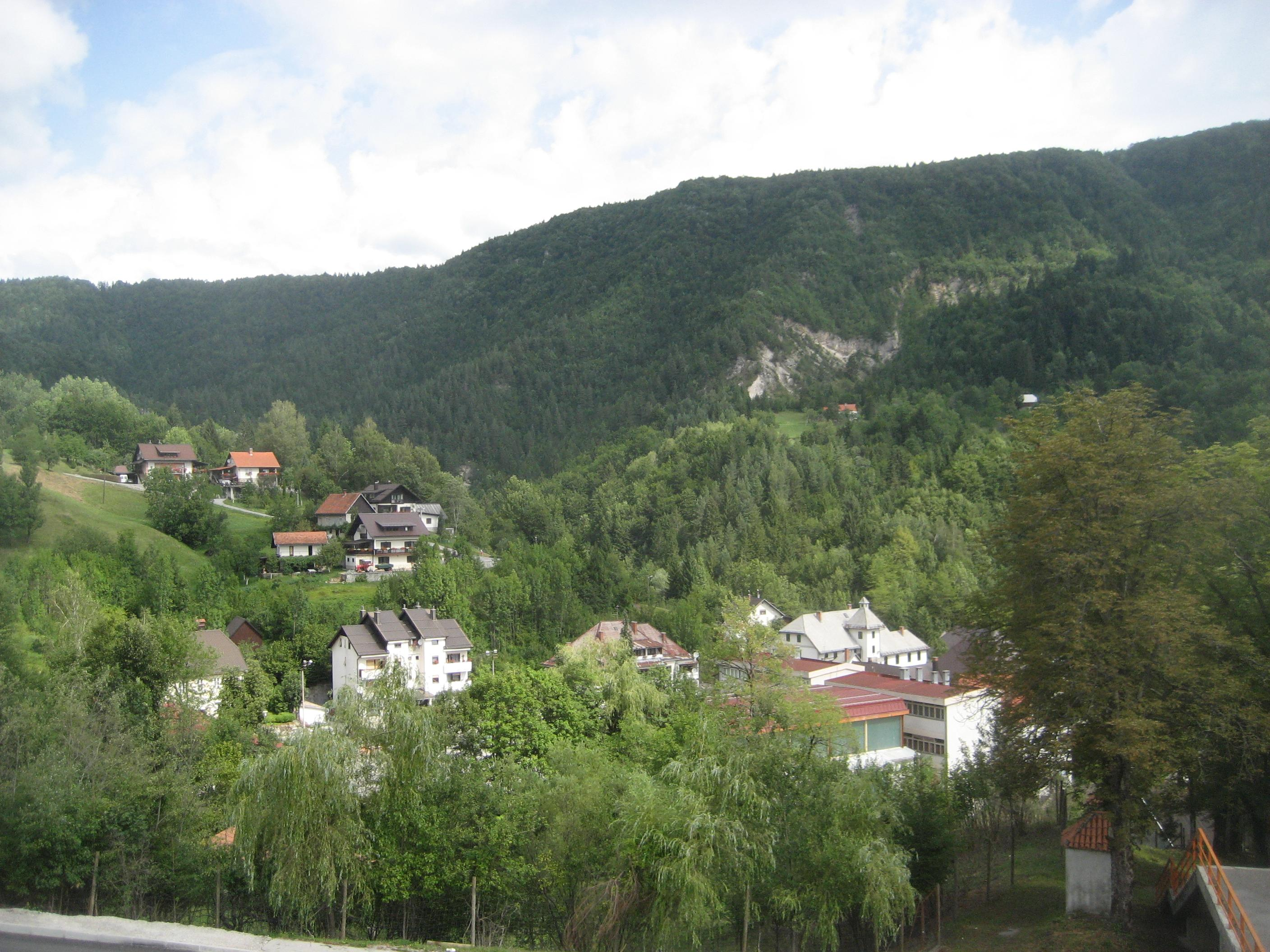 Cabar, Croatia